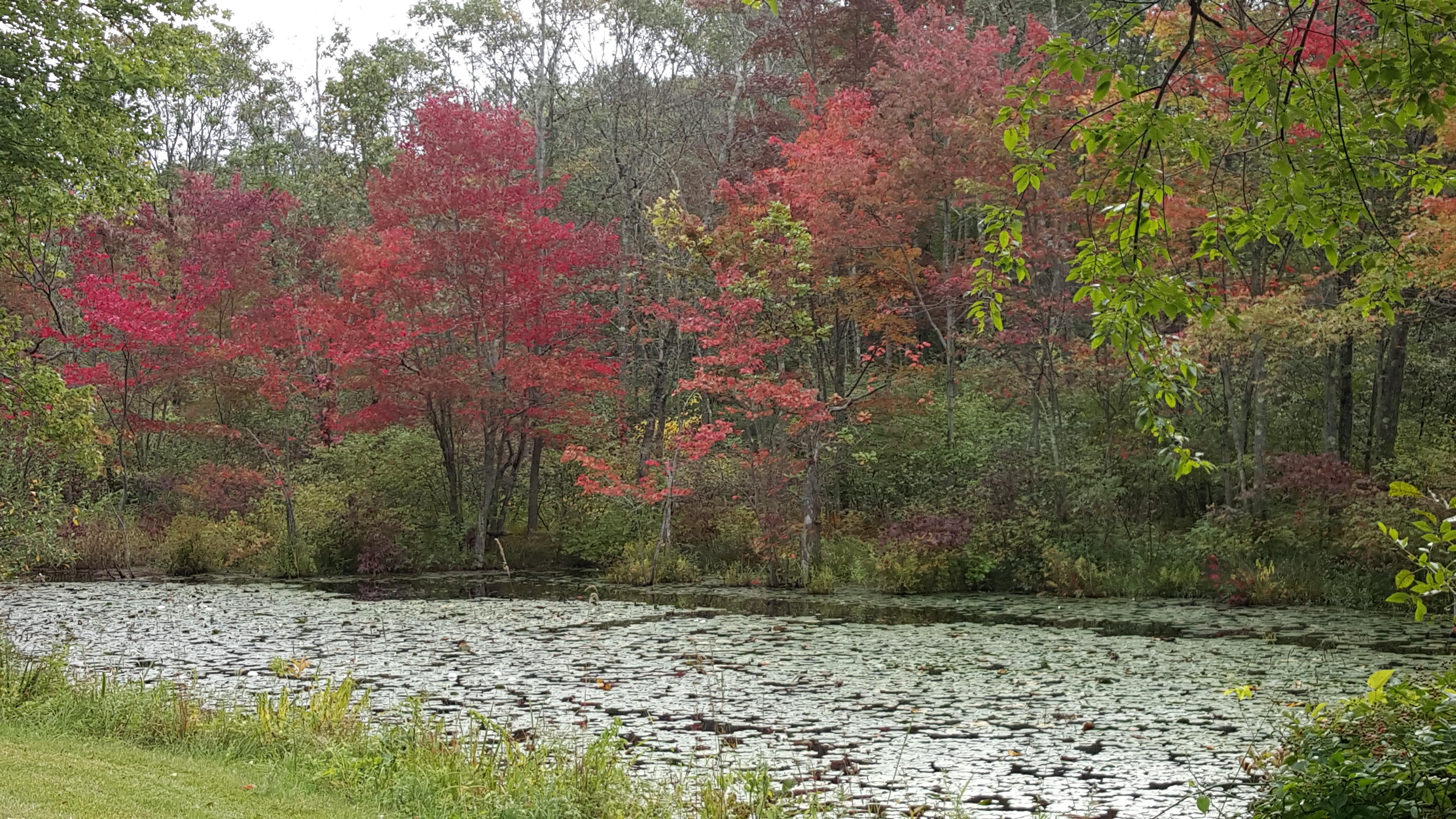 Kittatinny Valley State Park on September 22, 2015.